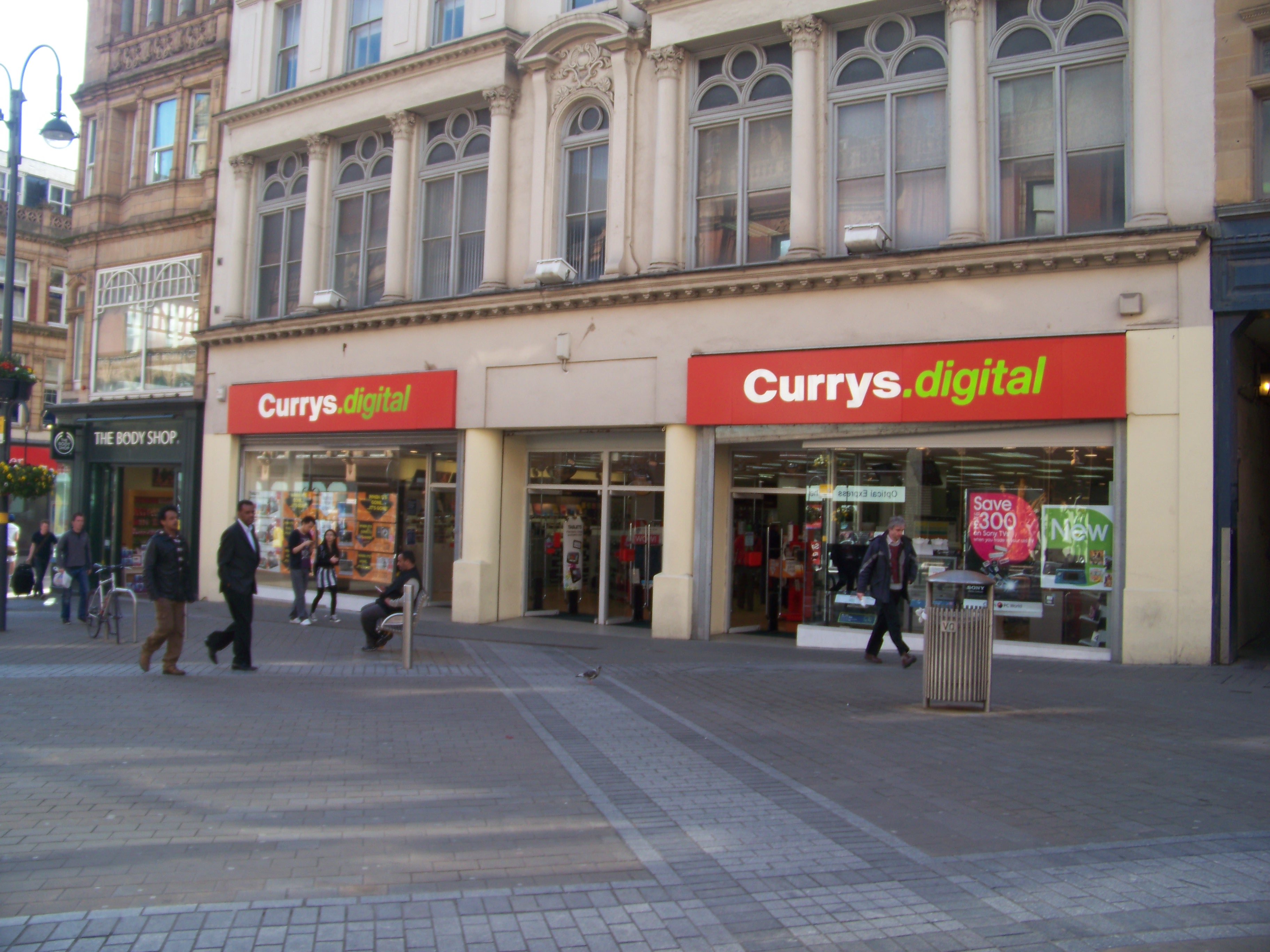 Currys.digital on Briggate in Leeds, West Yorkshire. Taken on the afternoon of Monday the 11th of May 2011.